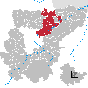 VG Ilmtal-Weinstraße in Thuringia - District Weimarer Land